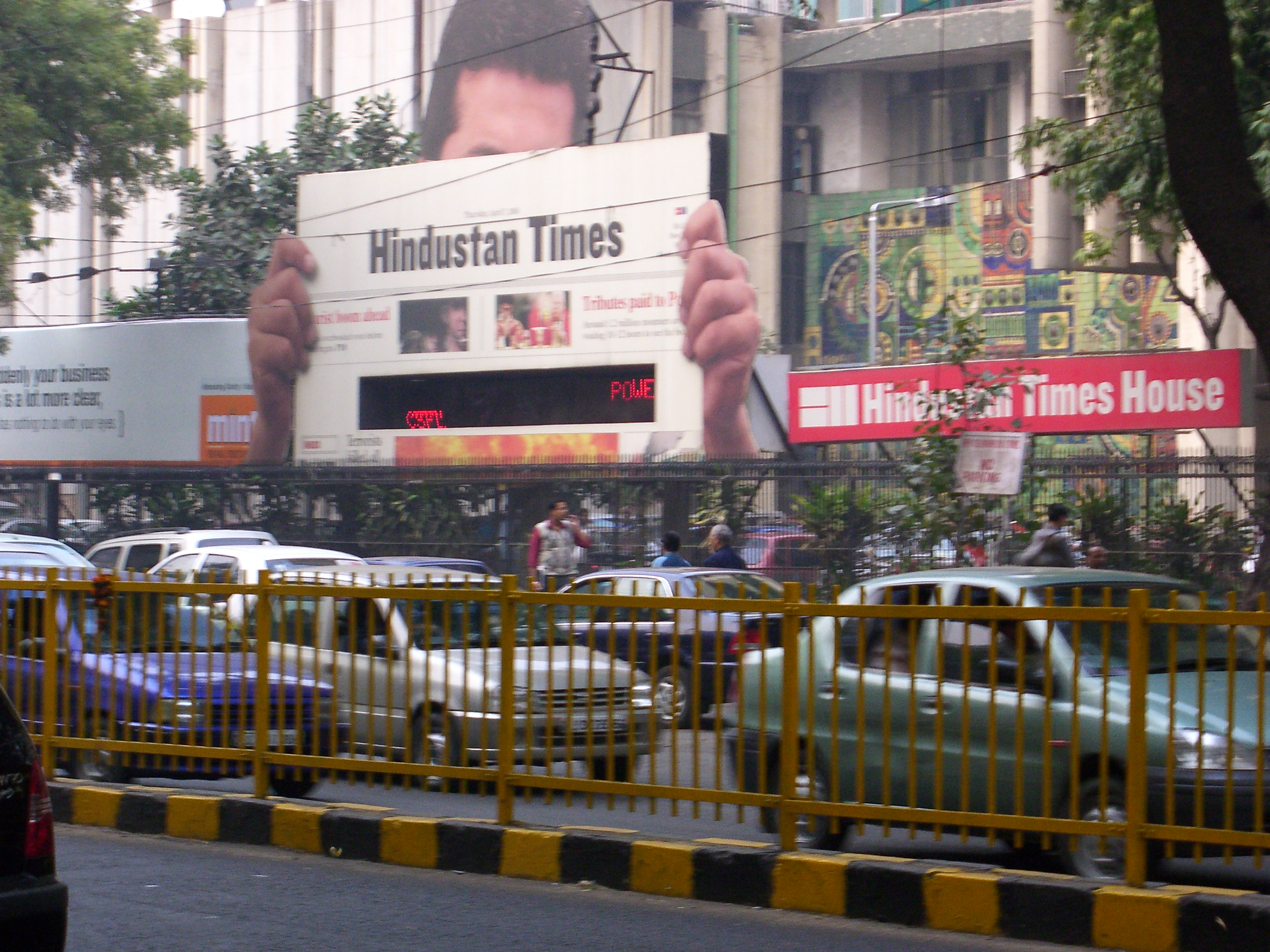 Hindustan Times